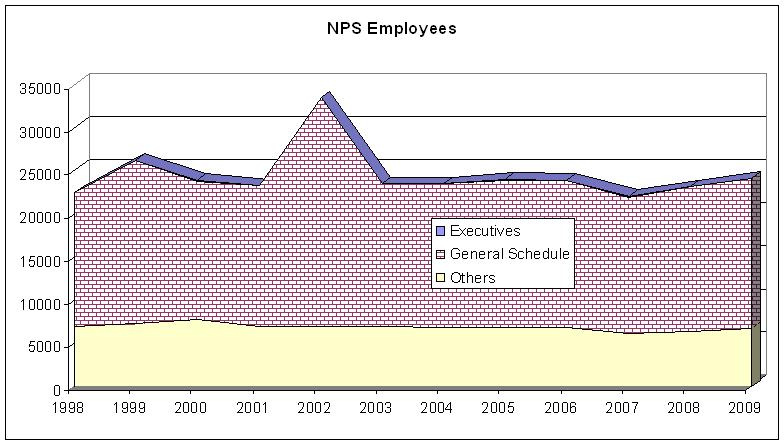 Chart of National Park Service Staff Levels (FY 1998-2009)